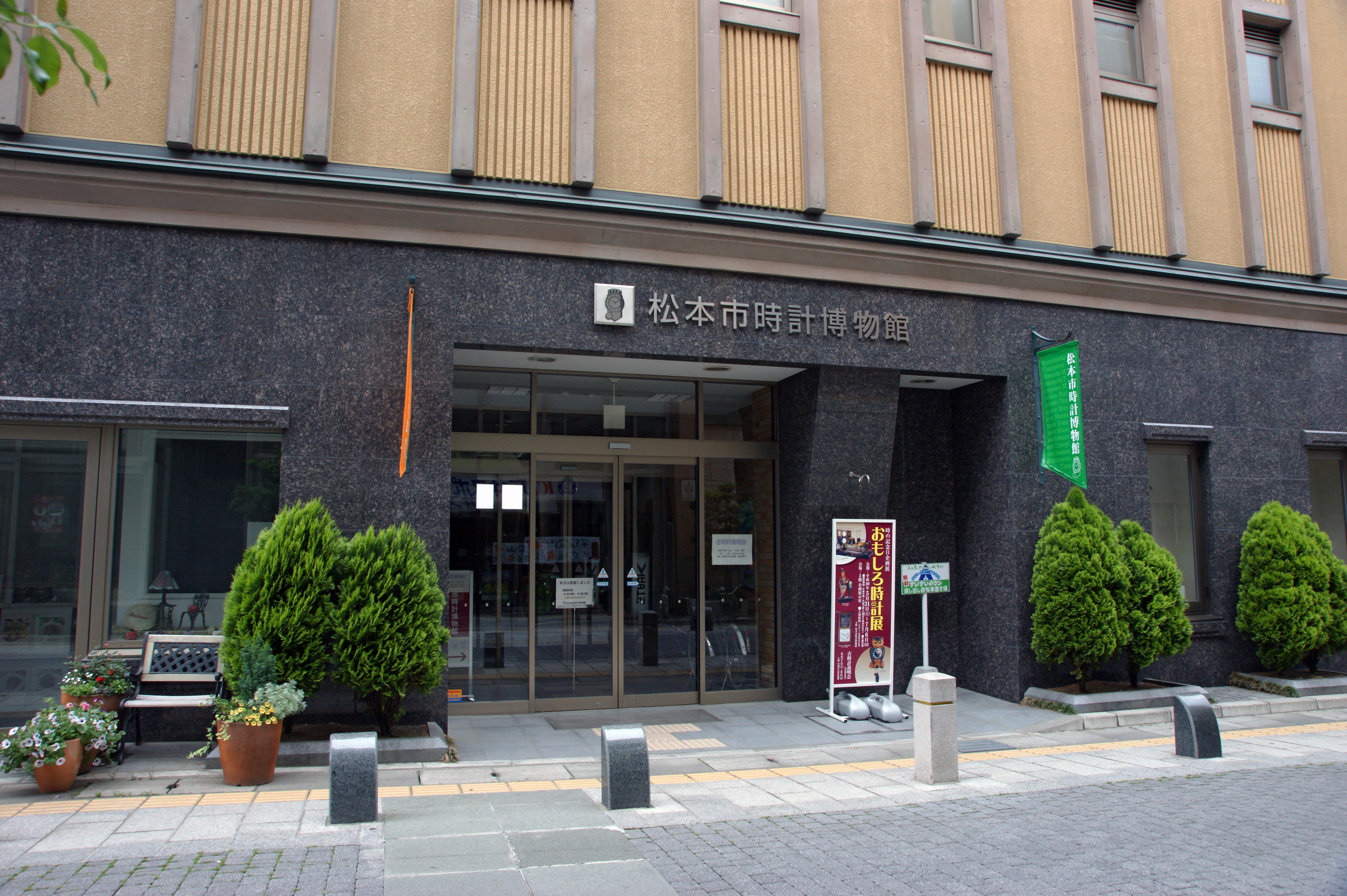 Matsumoto Timepiece Museum in Matsumoto, Nagano prefecture, Japan